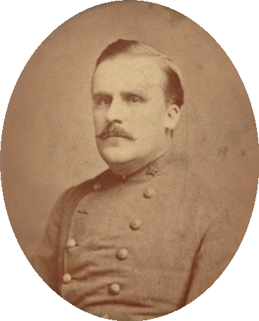 Albumen of a bust portrait of Major Thomas A. Brander, of the 20th Virginia Volunteer Infantry Regiment, in uniform. From the Collections of the Confederate Memorial Literary Society Object Number: FIC2013.00635 (CMLS)